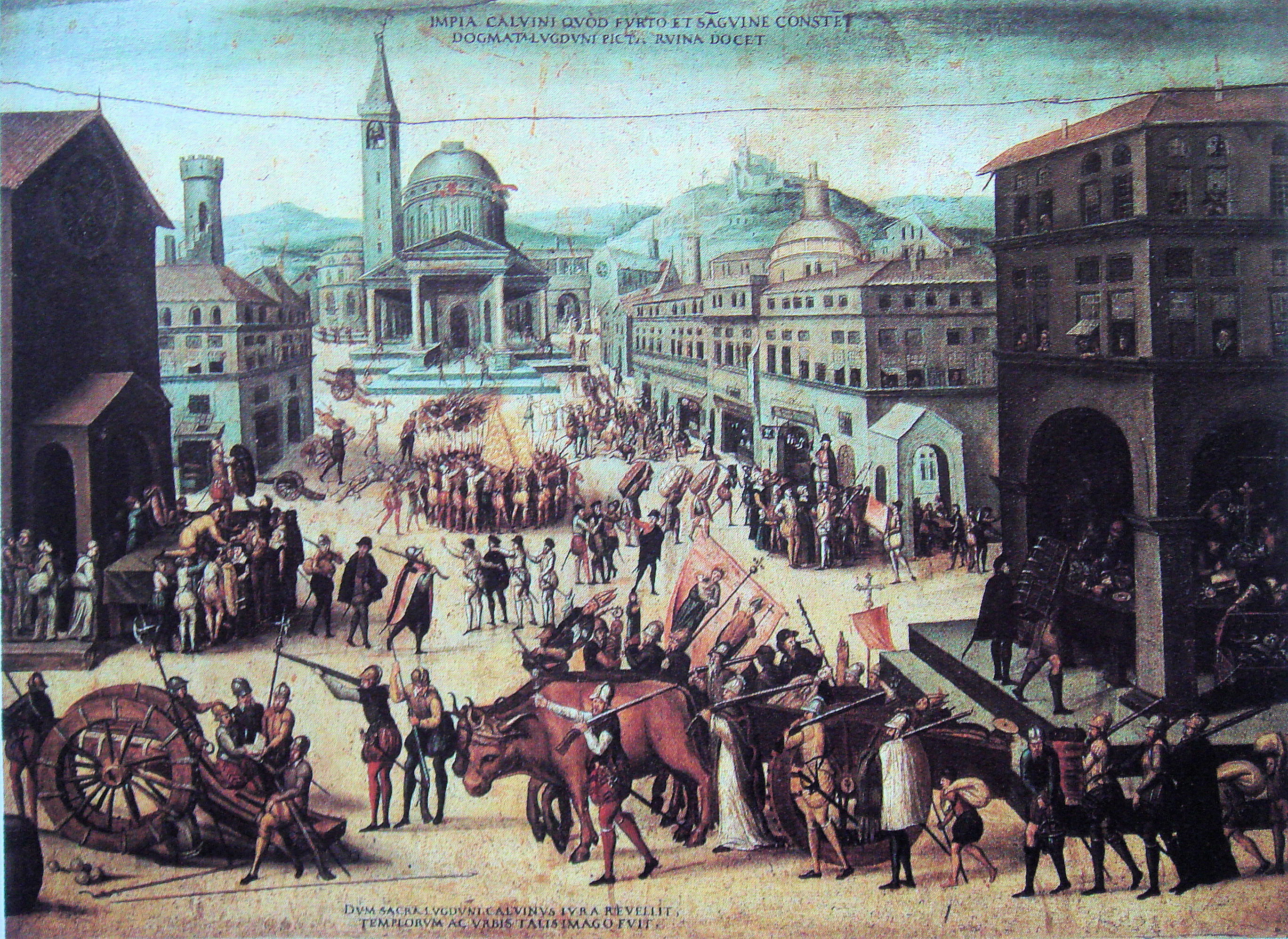 Looting of the Churches of Lyon by the Calvinists 1562